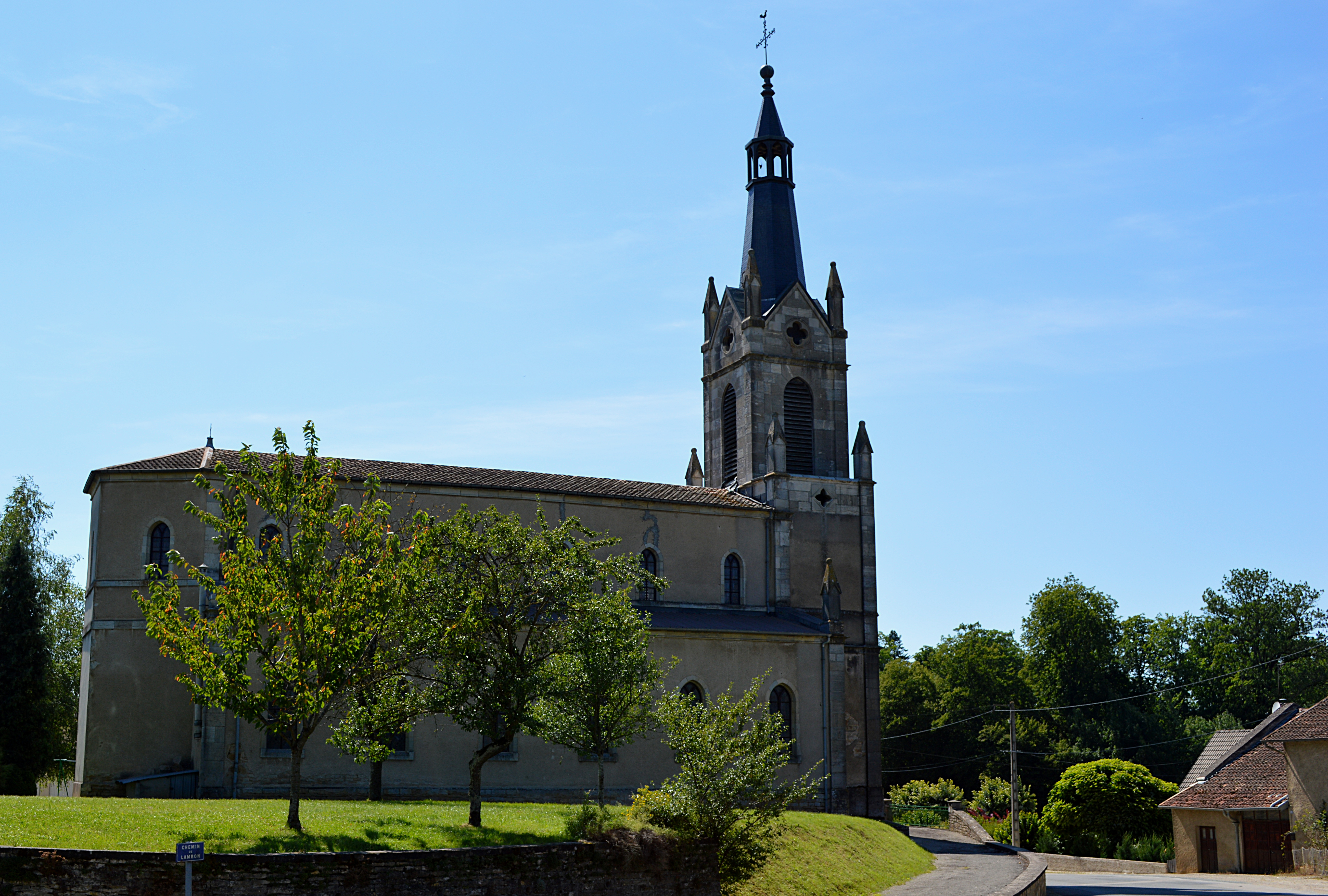 Church of the french village of Noironte, in the Doubs departement. View from the east.